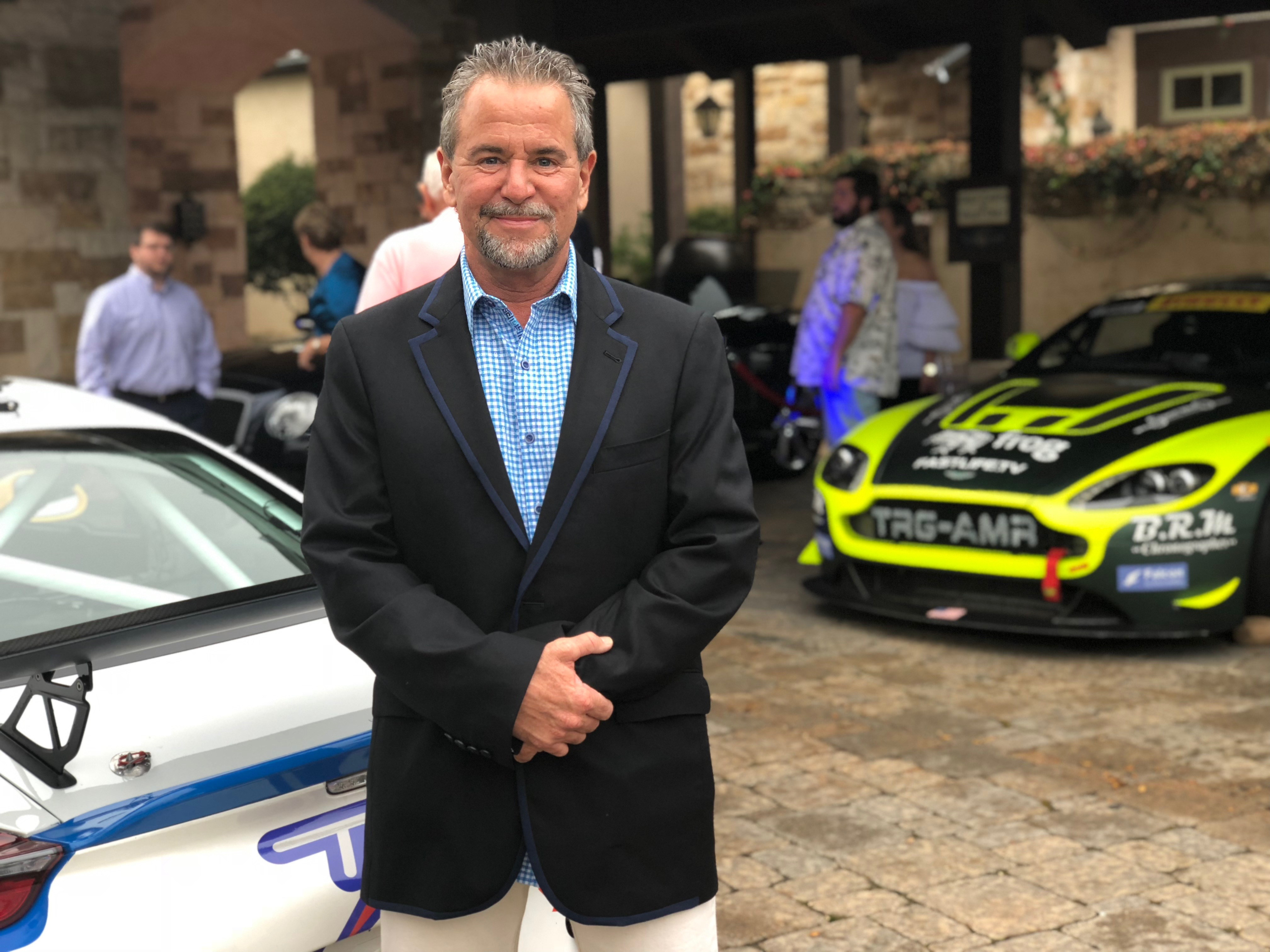 Kevin Buckler, owner of The Racers Group and Adobe Road Winery, 2018.